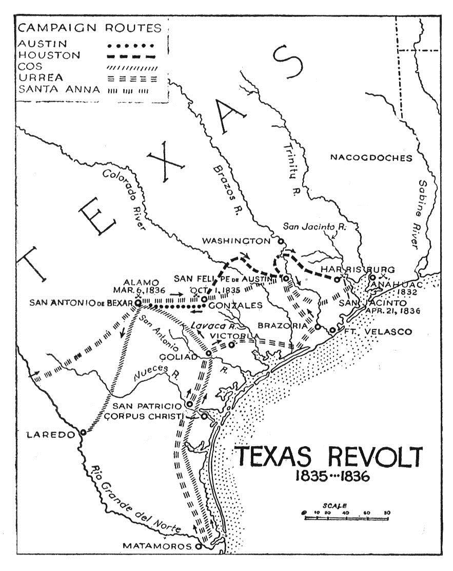 derived from File:Fredonia and the Texas Revolt.jpg. Information related to the Republic of Fredonia was removed from the map, leaving the campaigns of the Texas Revolution. I also corrected the spelling of Houston.